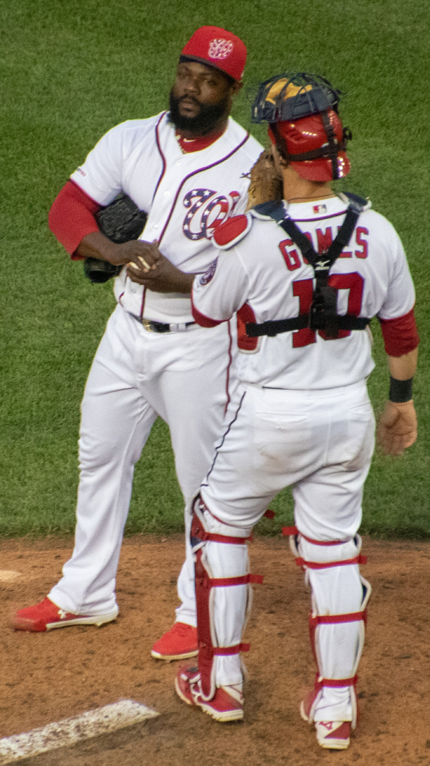 Fernando Rodney chat with Yan Gomes